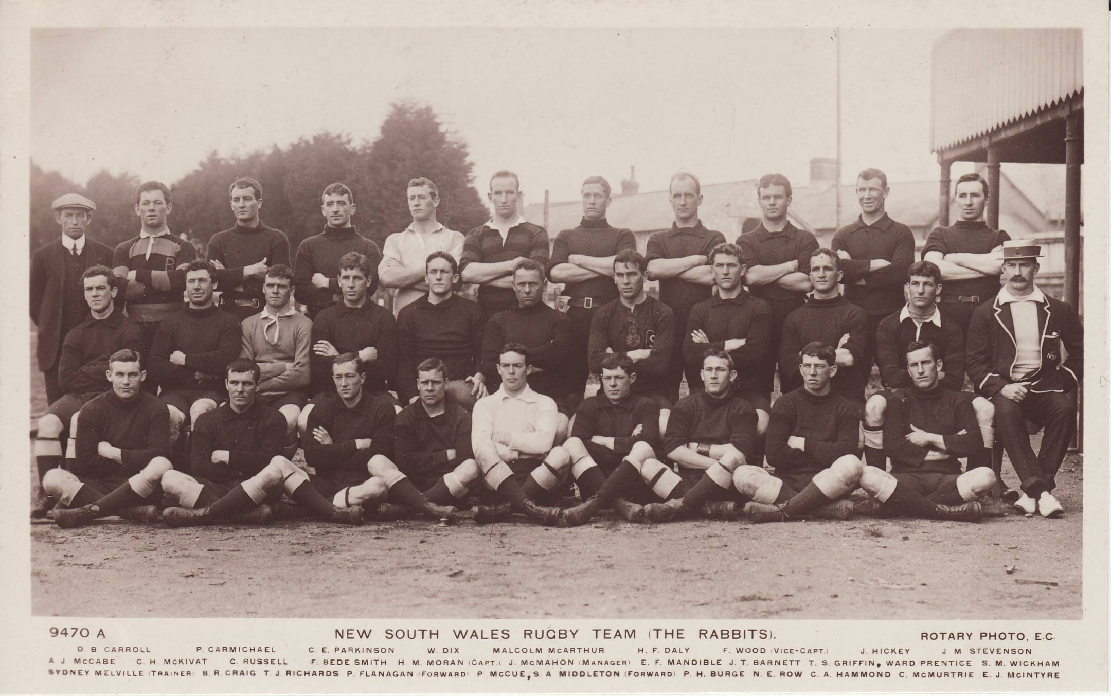 The Australia national rugby union team, tour of Britain, France and North America; newer version of postcard with nickname Rabbits.